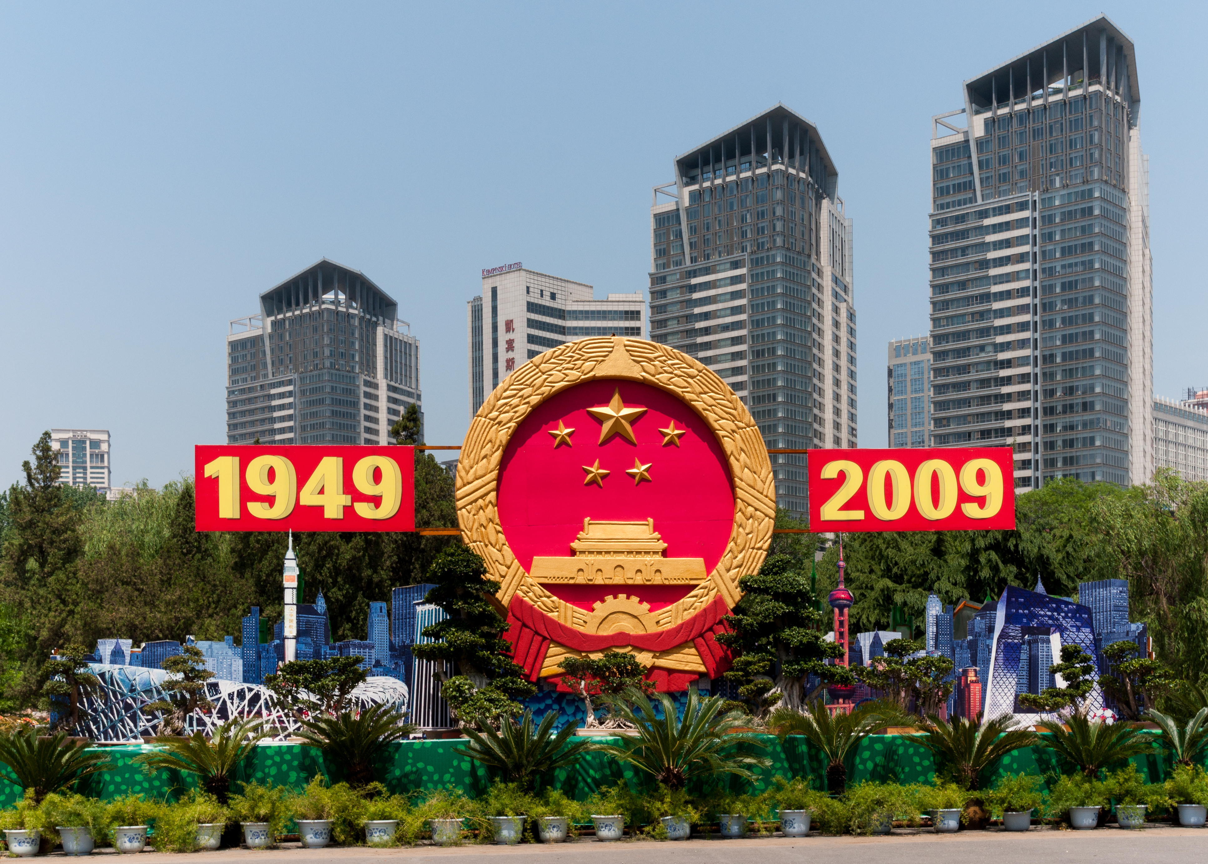 Dalian Liaoning China: A billboard during the preparations for the celebrations of 50 years of Peoples Republic China